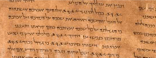 Psalms Scroll (Tehilim), Parchment, Copied ca. 30 - 50 C.E. See Names of God in Judaism. Portion of column 19 of the Psalms Scroll (Tehilim) from Qumran Cave 11. The Tetragrammaton in paleo-Hebrew can be clearly seen six times in this portion. Caution: this image may be photoshopped. There are a number of instances of mixed font.